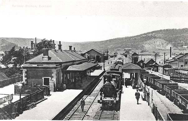 Eskbank Railway Station Dated: c. 31/12/1900 Digital ID: 17420_a014_a014000756 Rights: We'd love to hear from you if you use our photos. Many other photos in our collection are available to view and browse on our website using Photo Investigator.